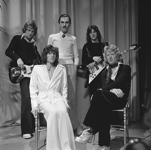 Sparks in AVRO's TopPop (Dutch television show) in 1974